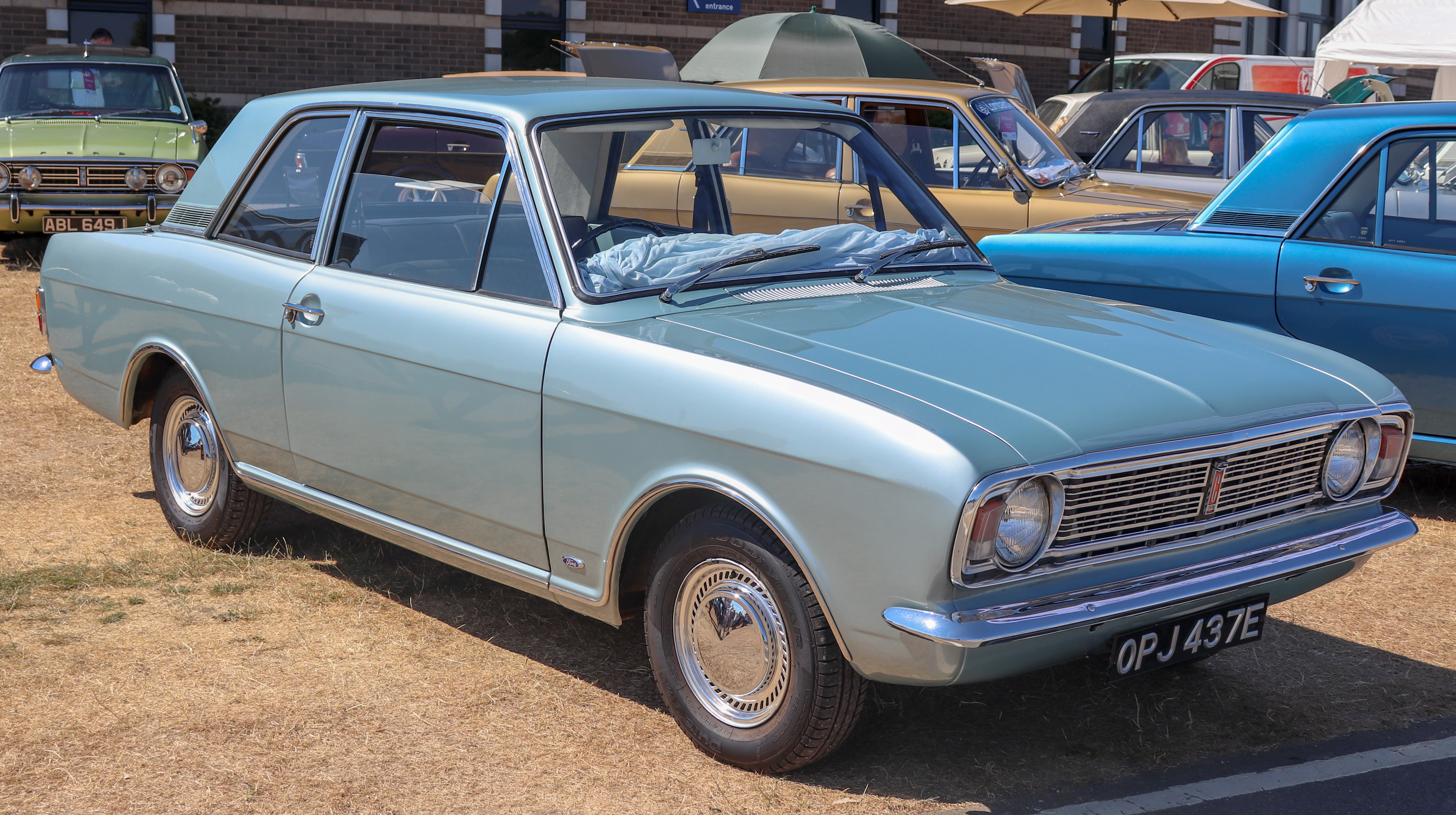 1967 Ford Cortina Super 1.5 Front Taken at the British Motor Museum Old Ford Rally 2018, Gaydon